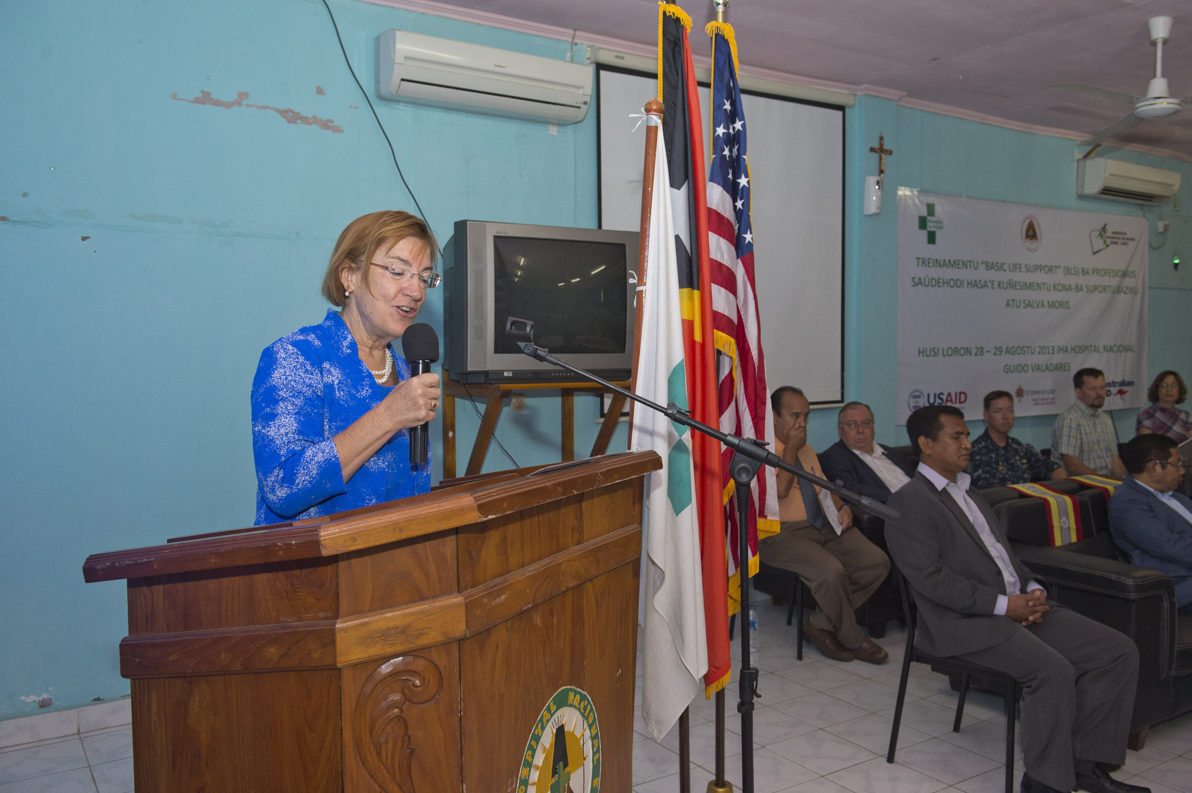 DILI, Timor-Leste (Aug. 28, 2013) - U.S. Ambassador to Timor-Leste, Judith Fergin, gives an opening speech at the opening ceremony for a basic life saving course at Hospital Guido Valadares (HNGV) in Dili, Timore-Leste. Denver is on patrol with the Bonhomme Richard Amphibious Ready Group (ARG), commanded by Amphibious Squadron (PHIBRON) 11, and is currently participating in Exercise Koolendong with the 31st Marine Expeditionary Unit. (U.S. Navy photo by Mass Communication Specialist 3rd Class Christopher Lindahl/Released)